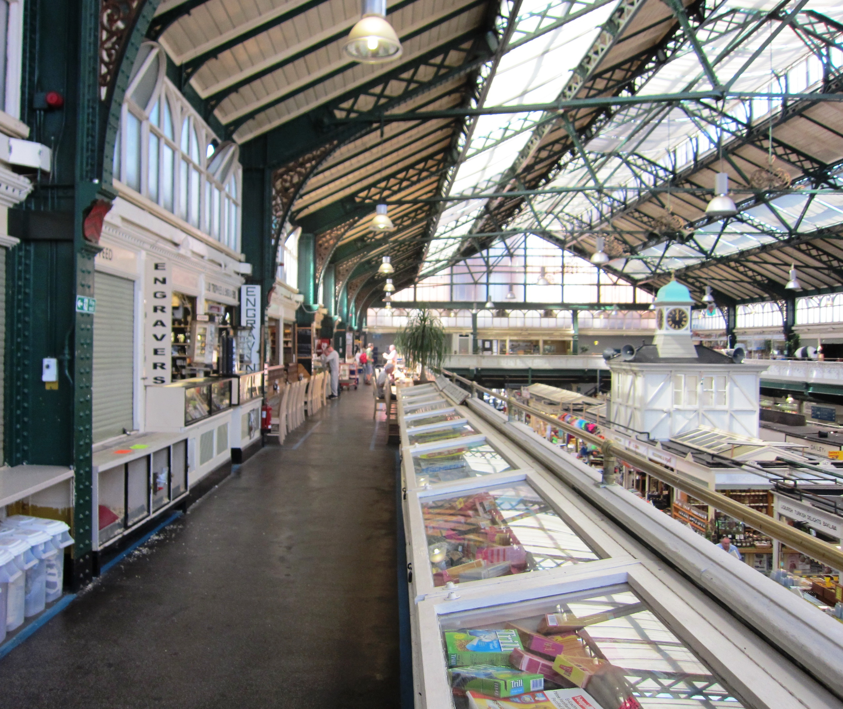 Cardiff Market upper level interior from the south-east